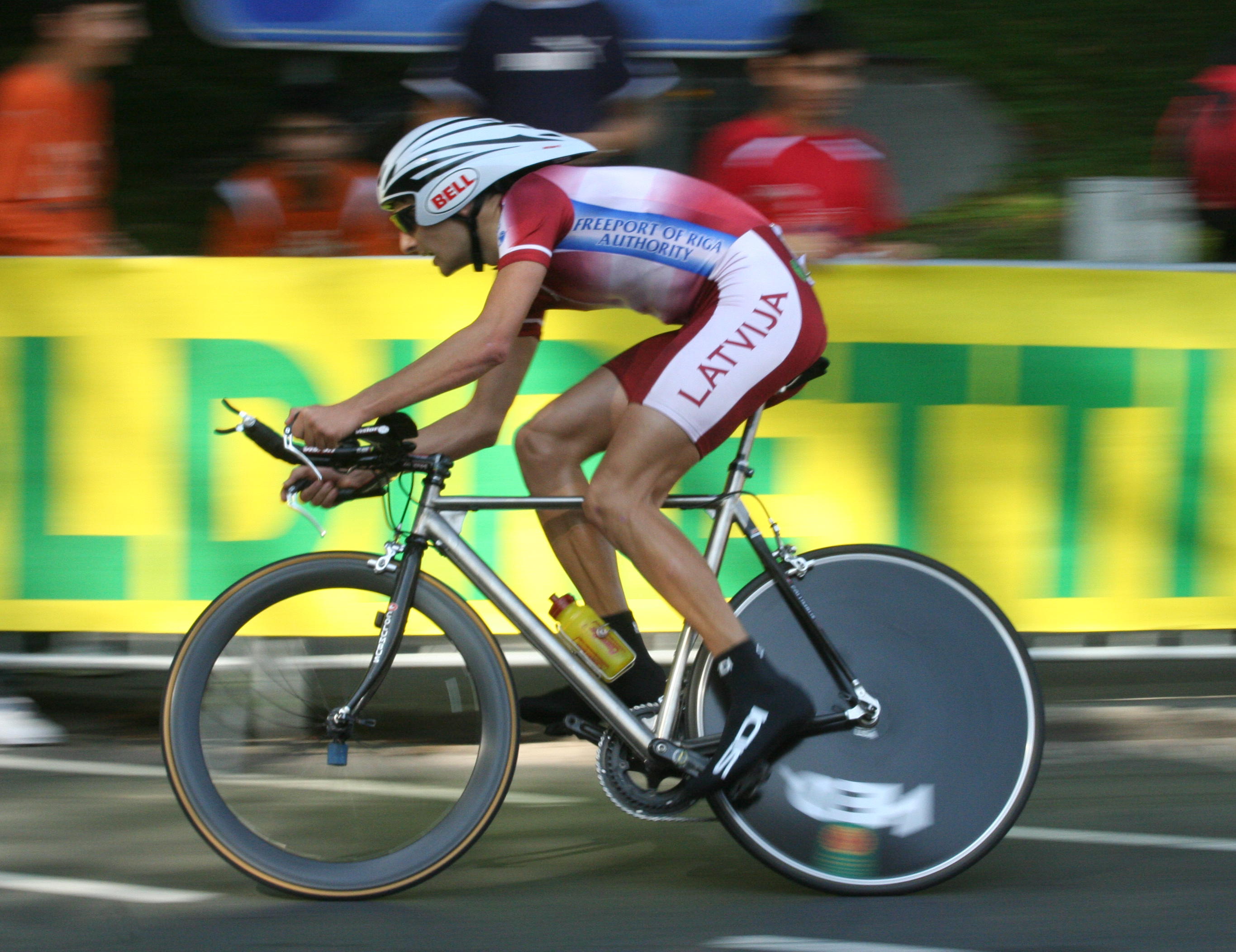 Raivis Belohvosciks (Latvia) at the UCI Road World Championships 2006 in Salzburg, September 2006